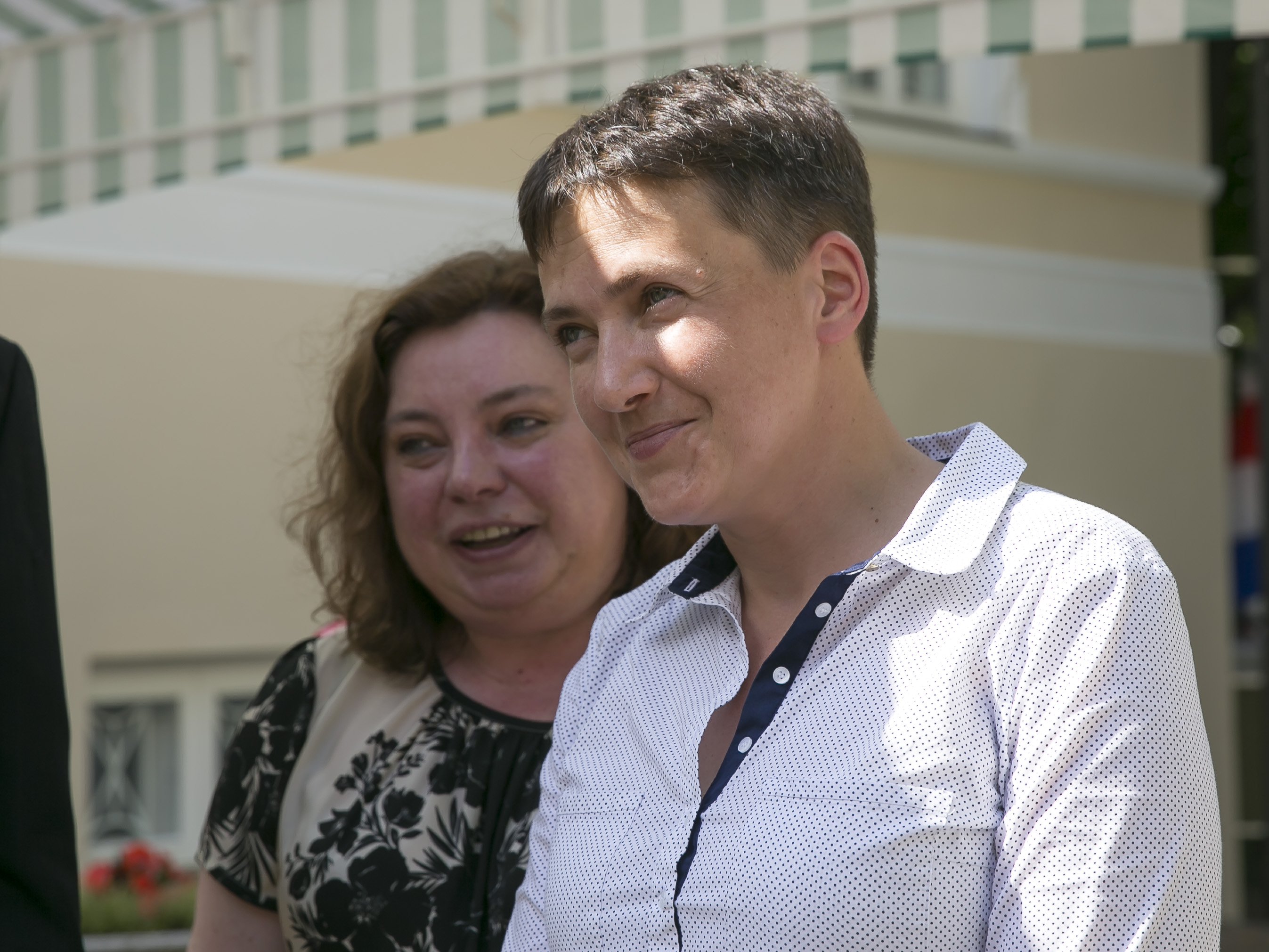 U.S. Independence Day Reception, Kyiv, Ukraine, July 1, 2016